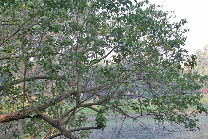 Indian Tulip Tree (Thespesia populnea) in Kolkata, West Bengal, India.